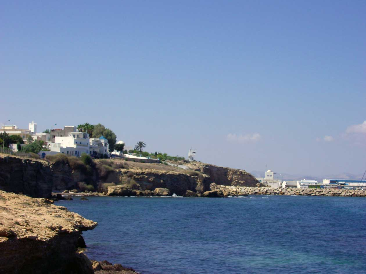 Hergla (Tunisia) - coast with harbour